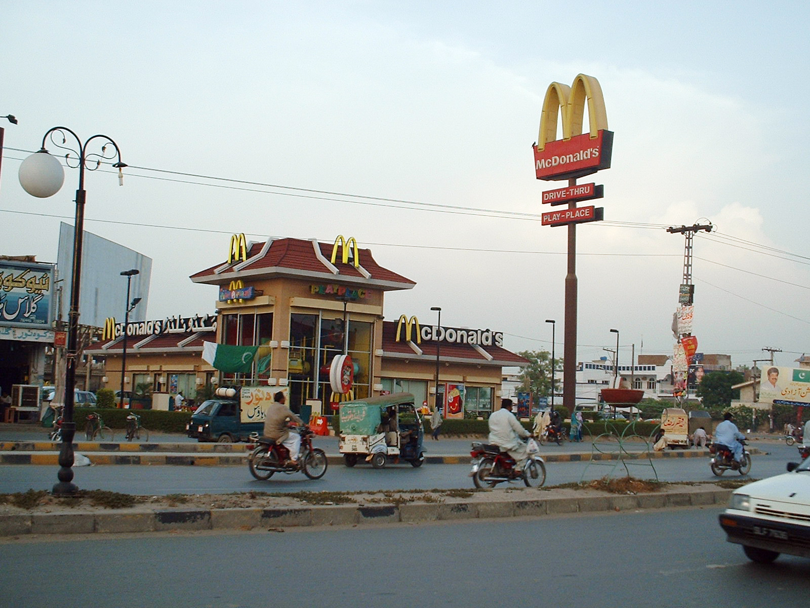 Batala Colony Faisalabad McDonalds